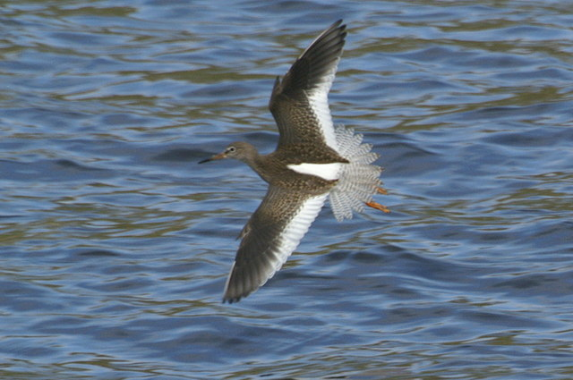 Redshank (Tringa totanus), Norwick Redshanks may be found in Shetland all year round but breeding birds, which are found in damp fields and mires, probably all migrate south and are replaced by birds from further north, probably mainly Iceland, during the winter.